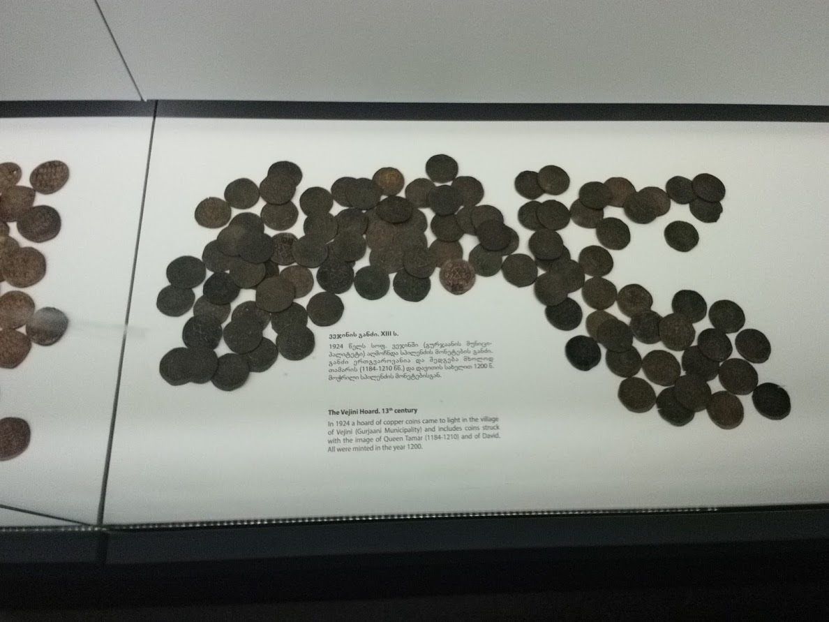 The Vejini Hoard